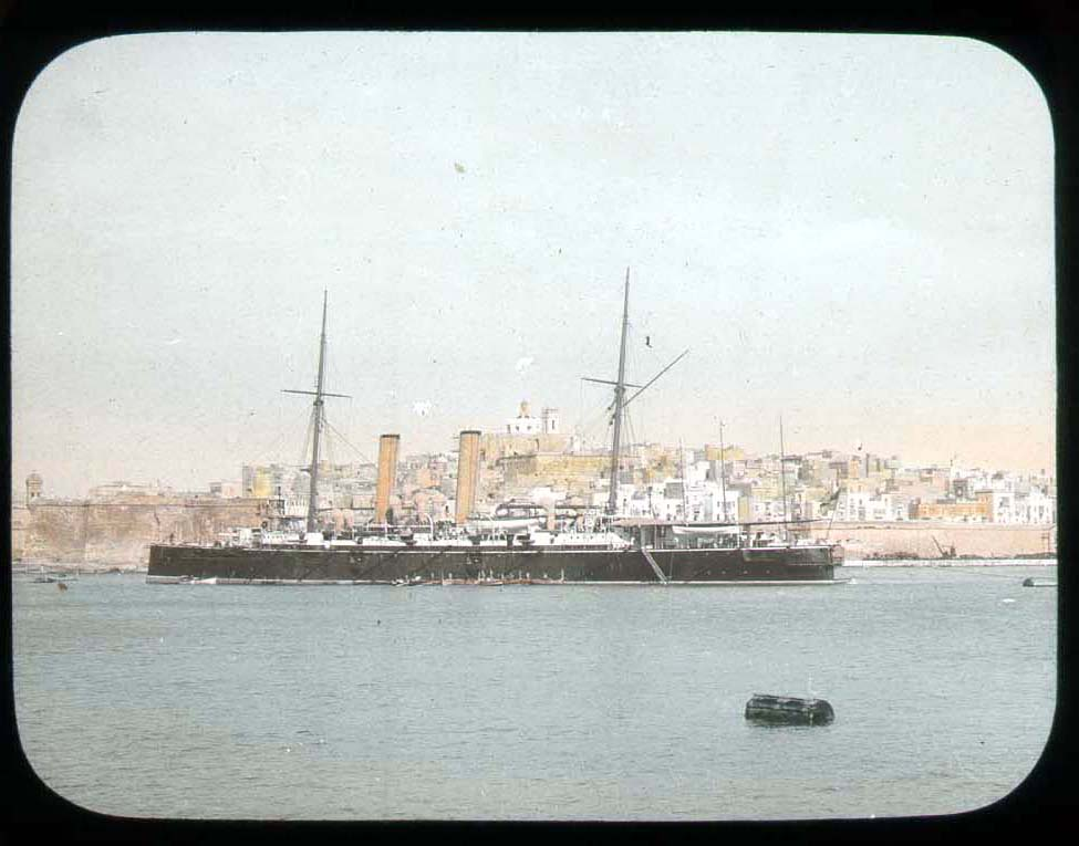 Man of War ship outside Malta. 1896. Name of Expedition: Africa Expedition Participants: D.G. Elliot and Carl Akeley Expedition Date: 1896 Purpose or Aims: Zoology Mammals Location: Europe, Malta Original material: Hand-colored glass lantern slide Digital Identifier: CSZ5886_LS Learn more about The Field Museum's Library Photo Archives.